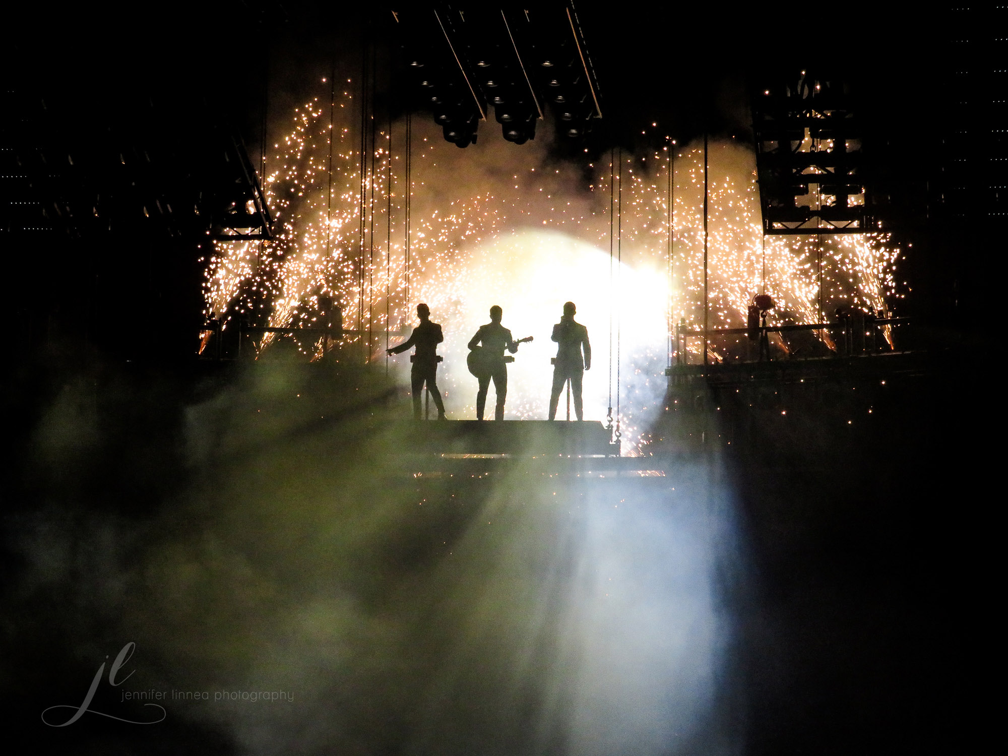 The Jonas Brothers perform at the Pepsi Center during their Happiness Begins Tour stop in Denver, CO on October 1, 2019.